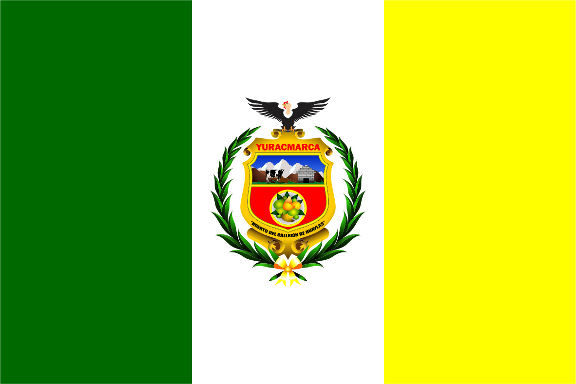 Yuracmarca District - Province of Huaylas - Ancash Region